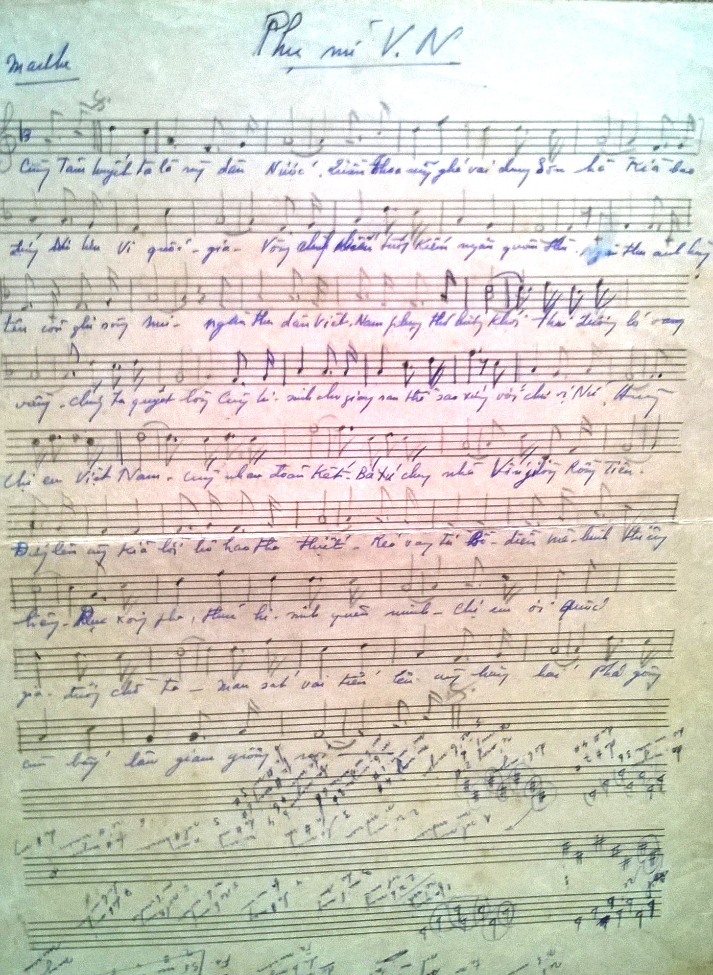 Vietnamese Women